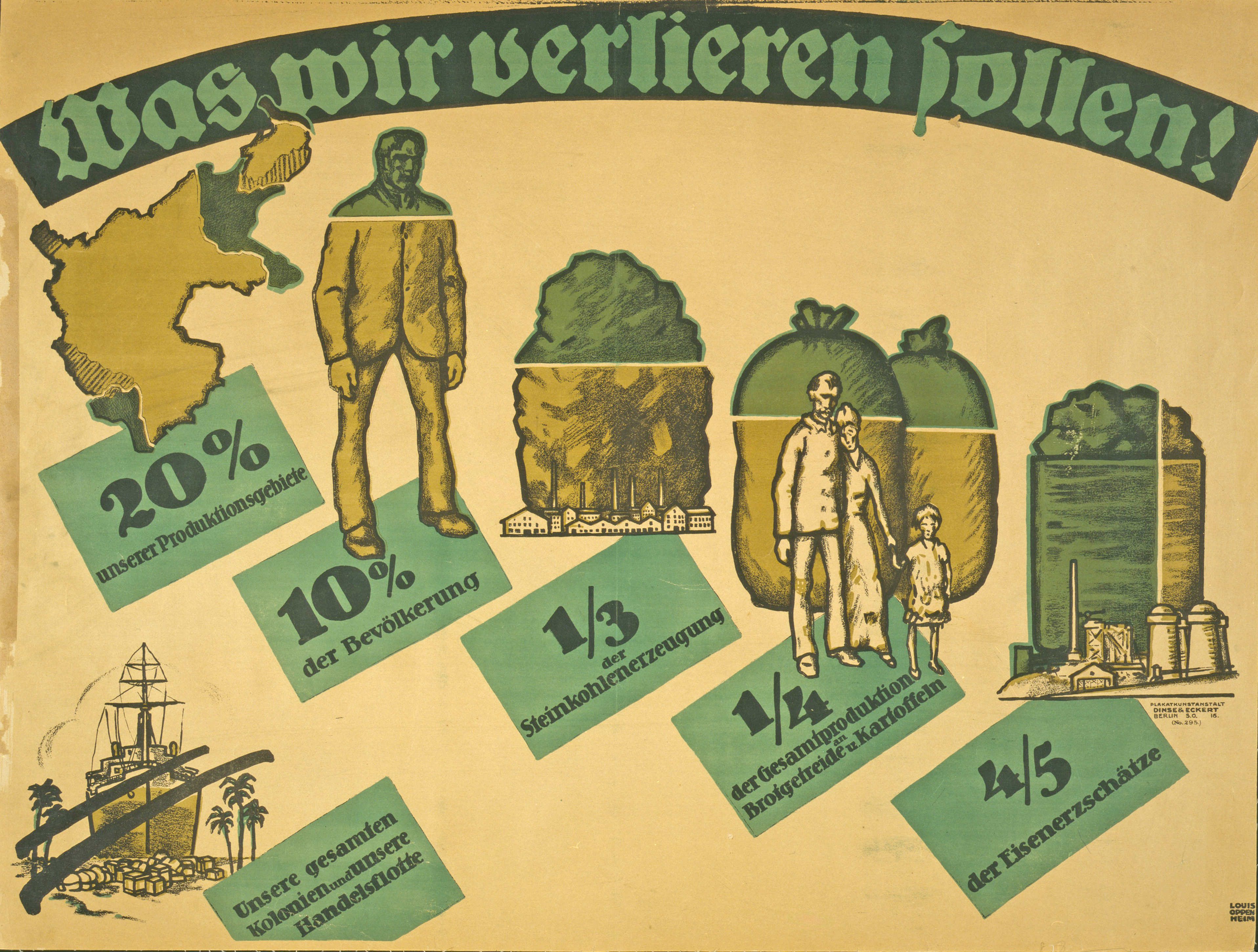 Was wir verlieren sollen! - official title - Poster shows a picture graph of what Germany will lose if Silesia becomes part of Poland, including land mass, population, coal production, grain and potato production, steel production, all colonies and the merchant marine (as per official LOC description)